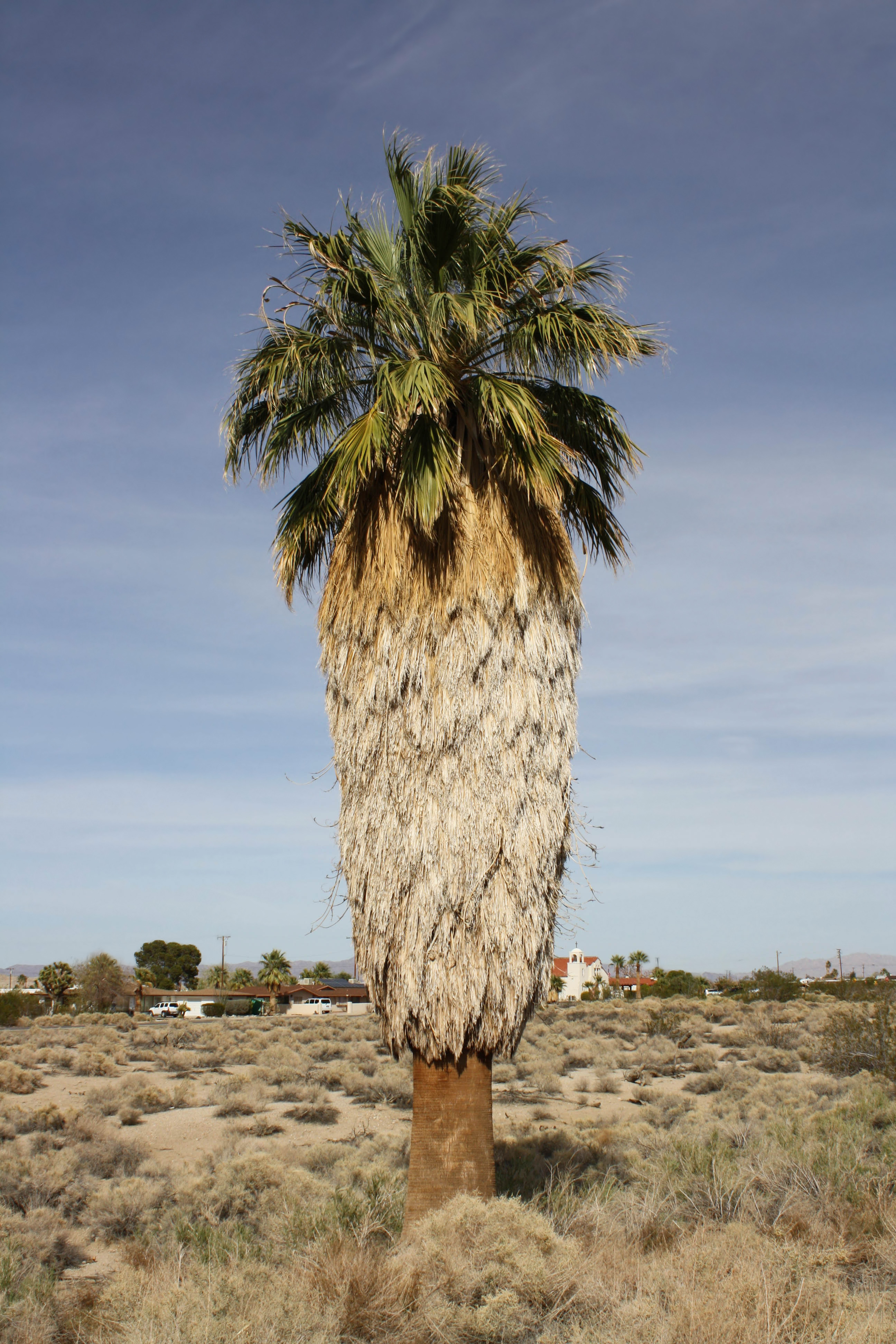 A California fan palm (Washingtonia filifera) in Oasis of Mara, Joshua Tree National Park, California